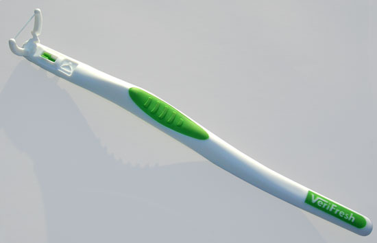 VeriFresh Ergonomic Flosser with swiveling disposable floss heads. The user may set the apropriate angle of the floss heads to allow efficent cleaning between any pair of teeth in the mouth. That allows easy access to the front teeth as well as to back teeth.